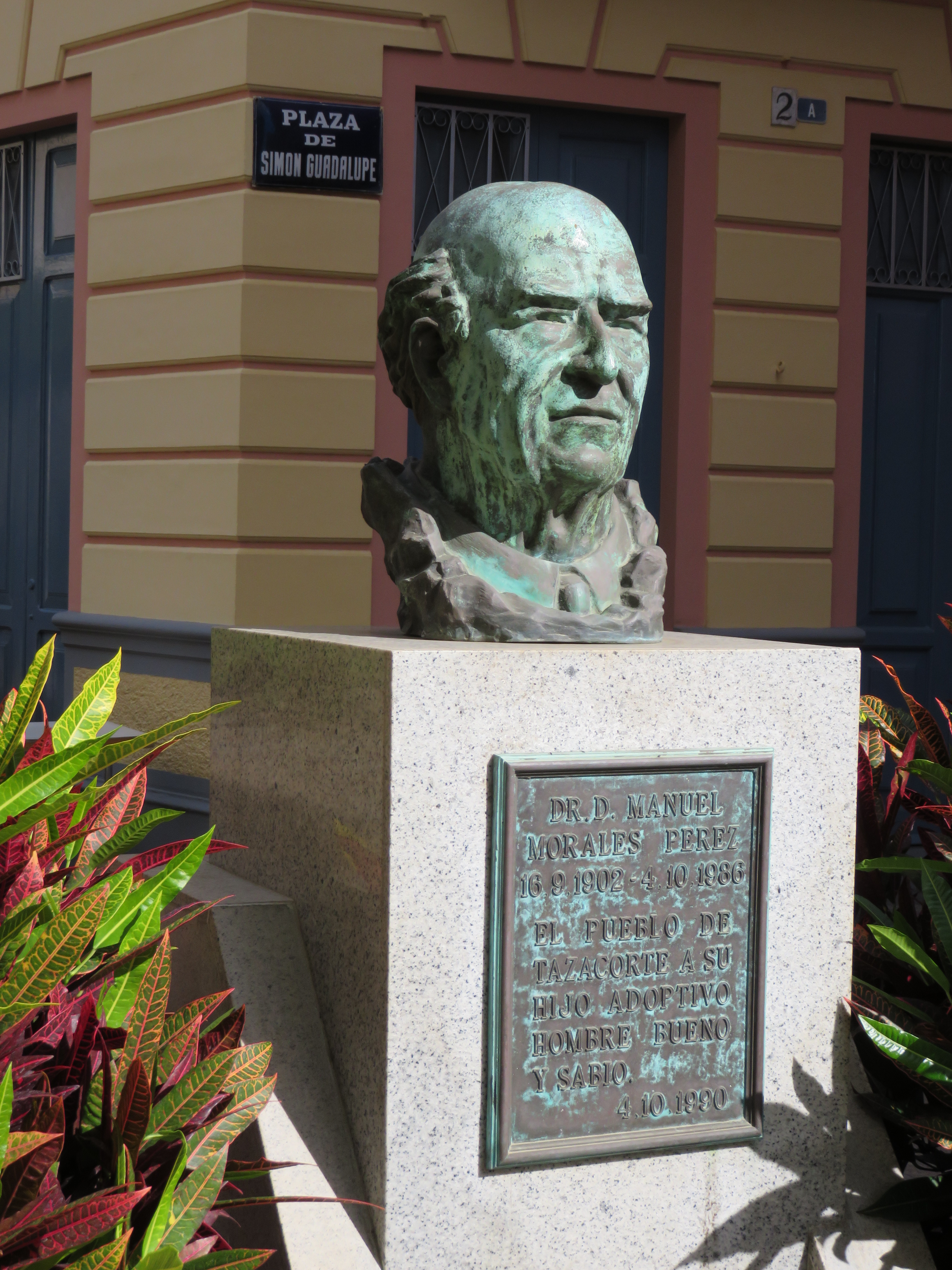 Bust of Manuel Morales Perez of Manuel Pereda de Castro in Tazacorte